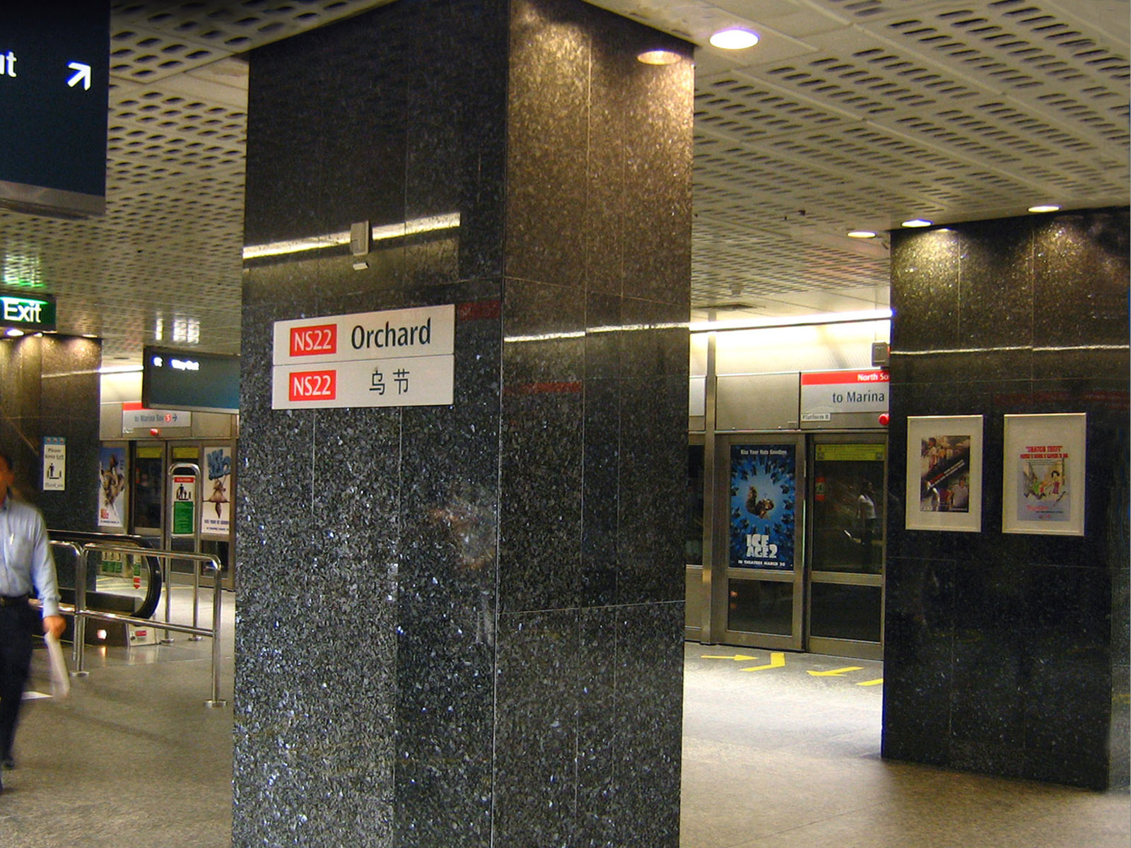 Orchard Station along North Sth Line, Singapore